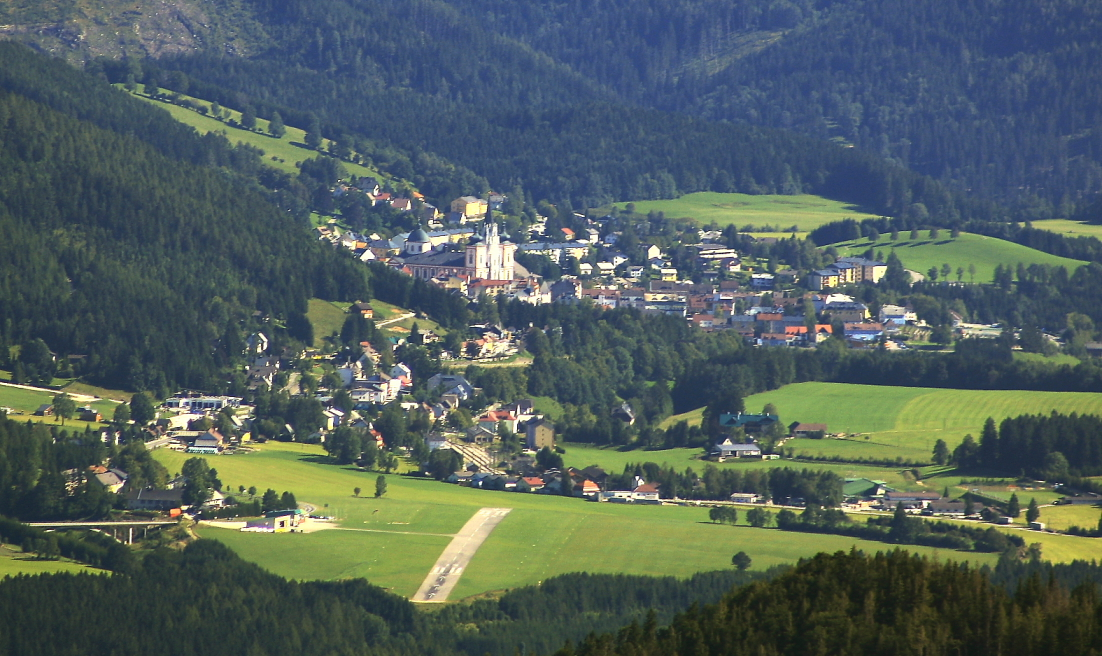 The city of Mariazell in the Austrian province of Steiermark, seen from Rauer Kamm. The runway of Mariazell Airport can be seen in the foreground.